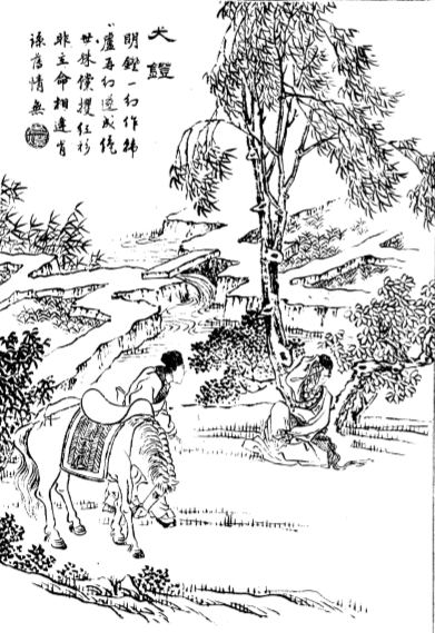 19th-century illustration of a scene from the short story "A Brilliant Light" (Quandeng) collected in Strange Tales from a Chinese Studio (1740).